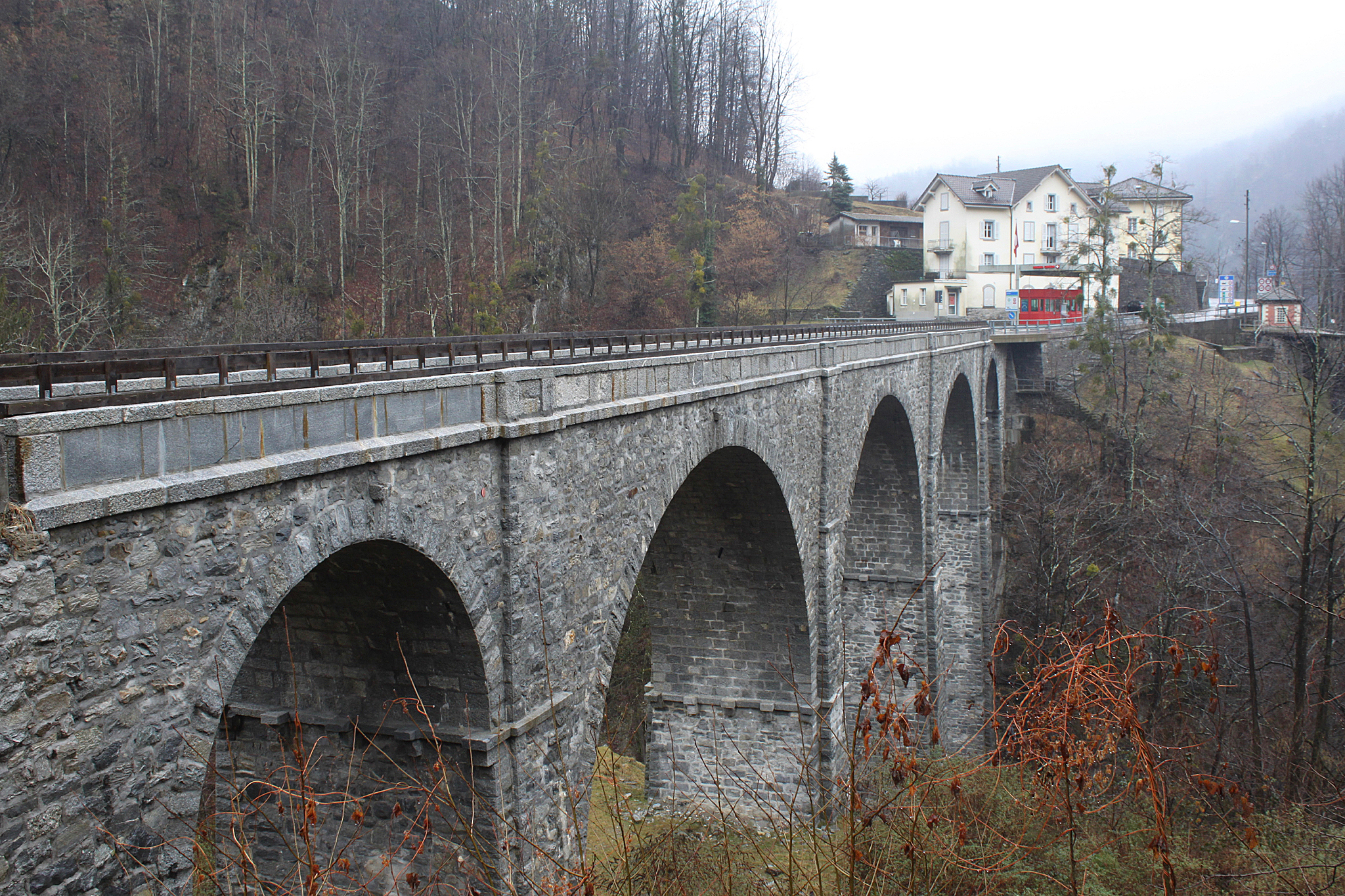 Road bridge between Ponte Ribellasca and Camedo.